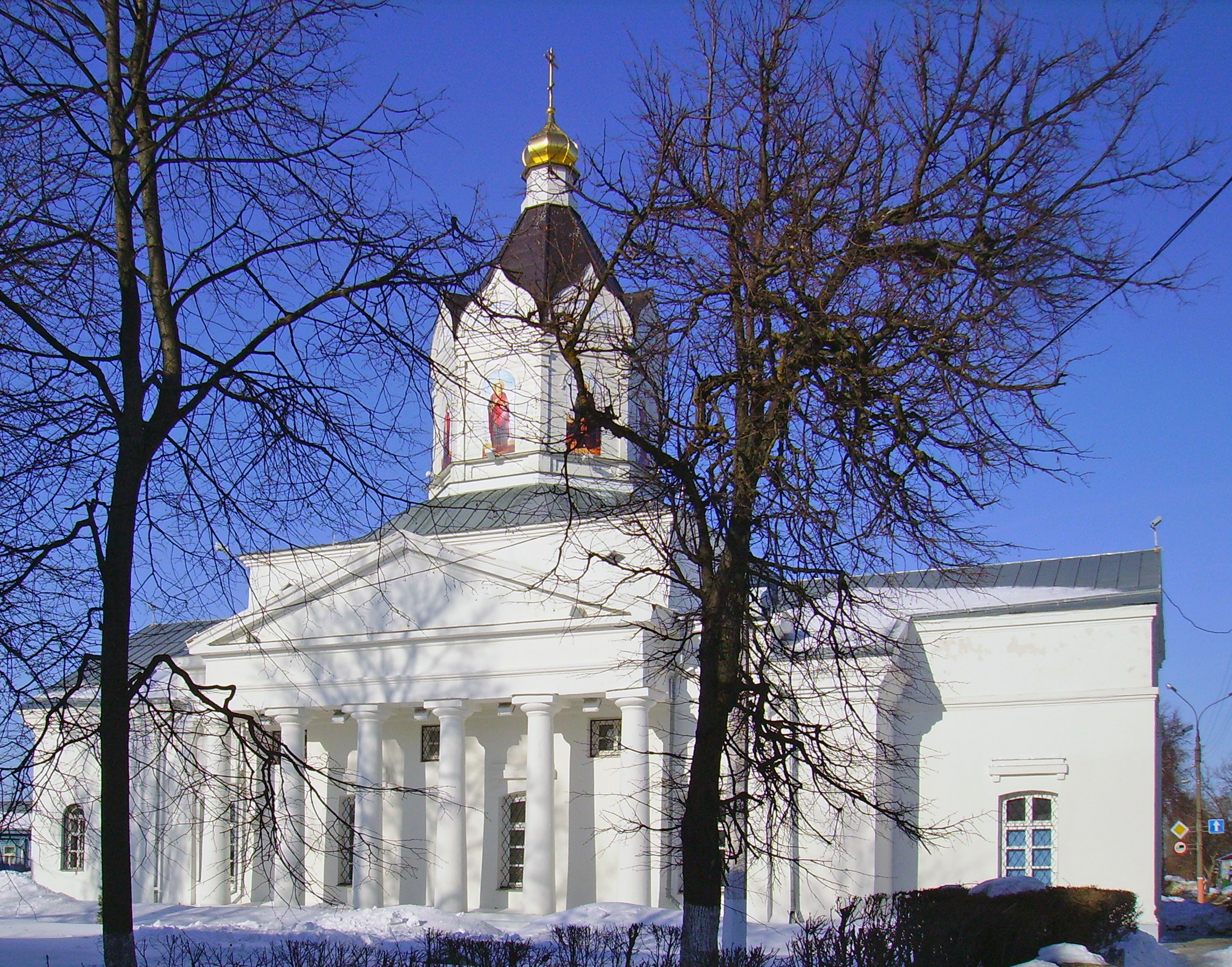 Arzamas. Kazanskaya Church